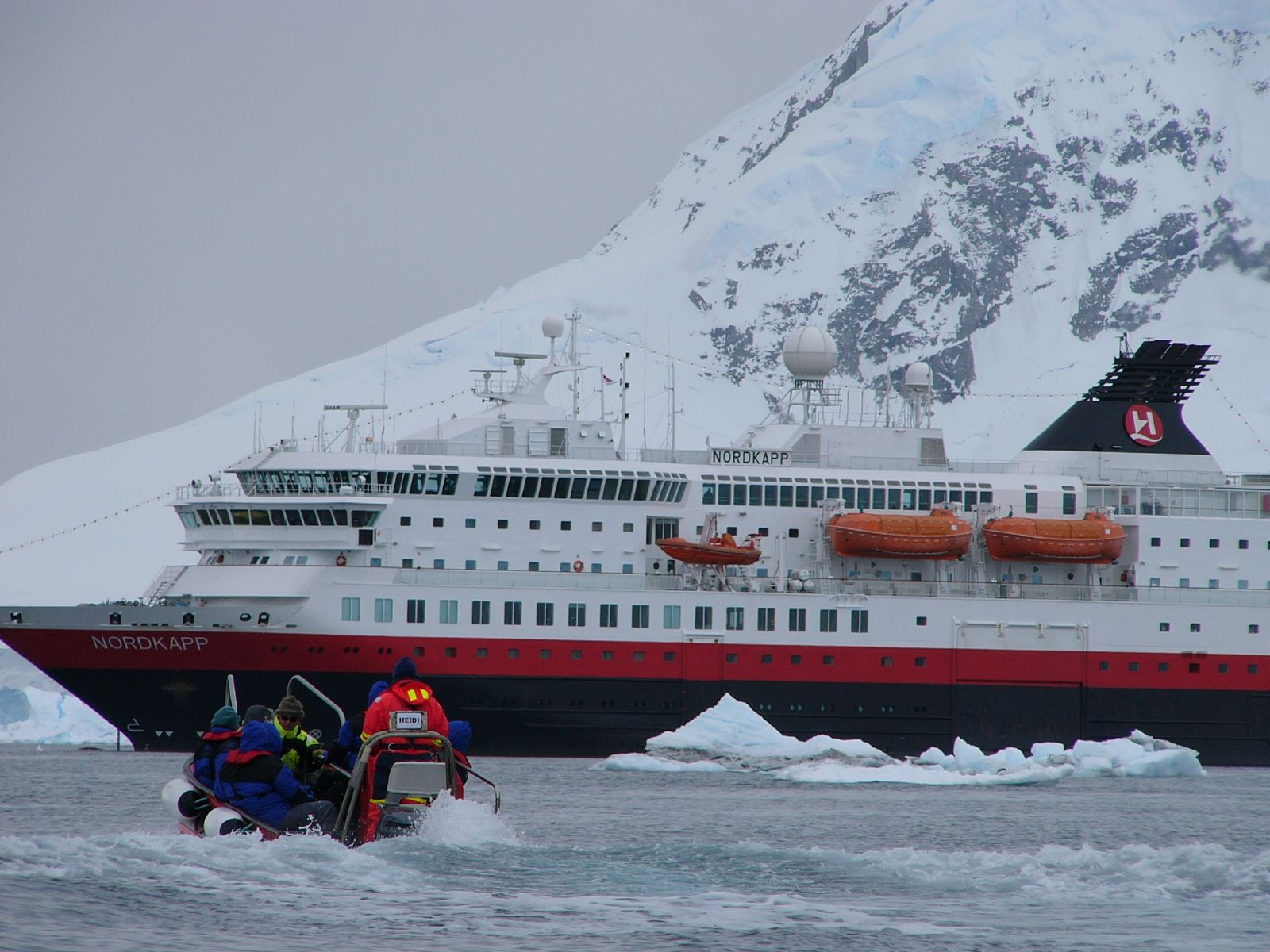 MS Nordkapp in Paradise Bay - Antarctica